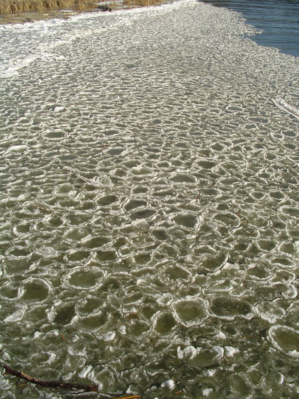 Pancake ice formed by alternating above/below freezing temperatures and wave action at the mouth of the Winooski river, Burlington, Vermont, USA